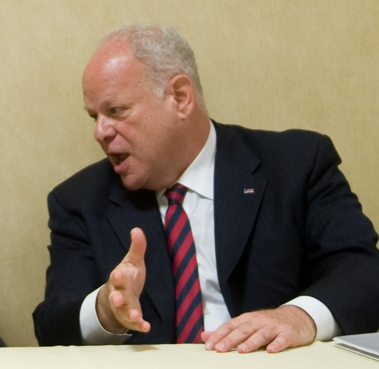 Dr. Martin Seligman of the University of Pennsylvania. Photo credit: D. Myles Cullen. See more at